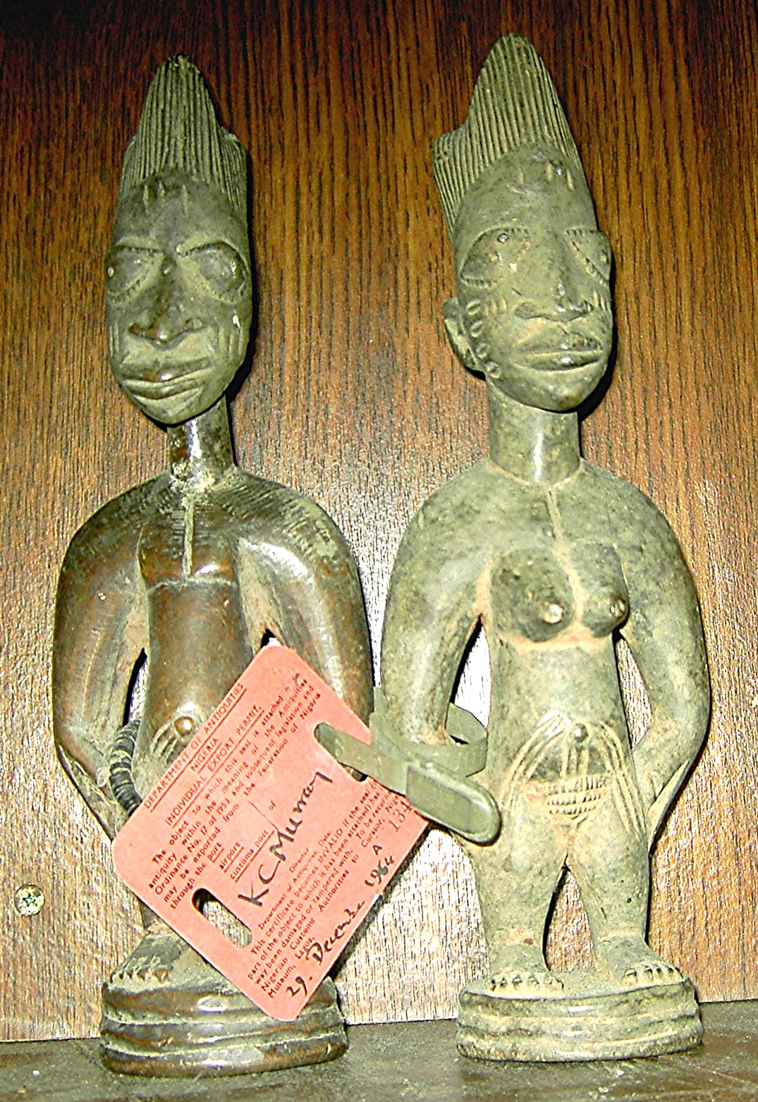 Photograph of a pair of ibeji twin figures, authenticated by the Department of Antiquities of Nigeria.